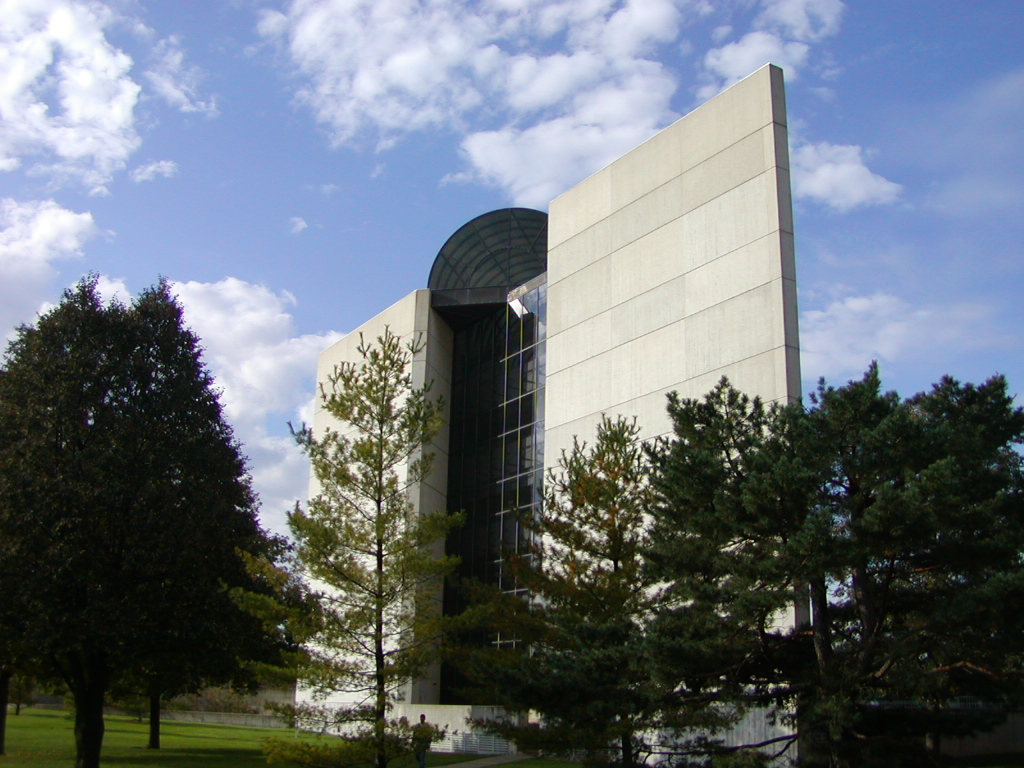 Design Building, Iowa State University